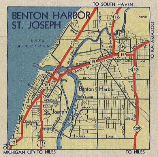 Benton Harbor–St. Joseph inset from the October 1, 1957, Official Highway Map